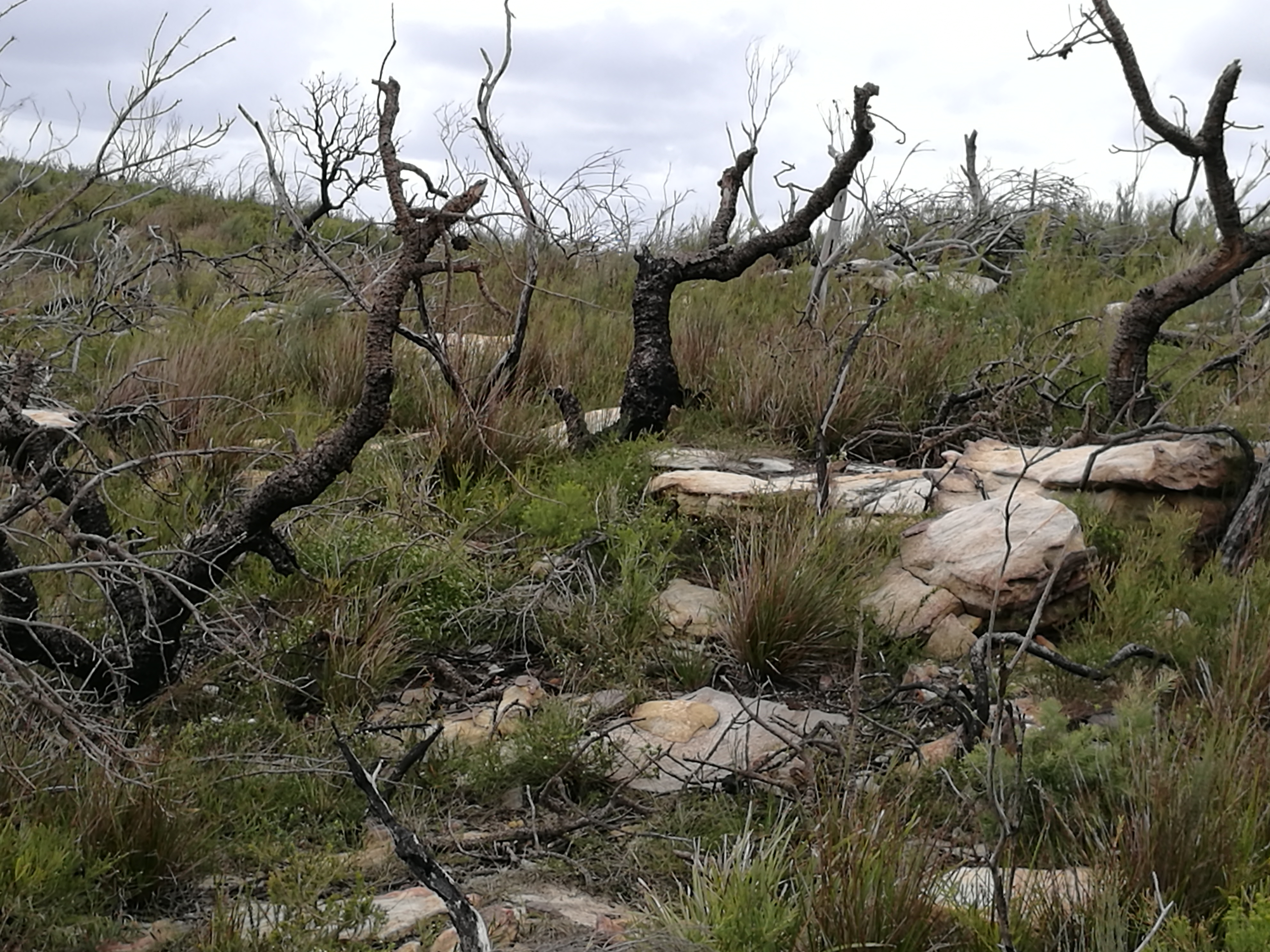 Barrenjoey, beyond the lighthouse, March 3, 2017. Regeneration after the fire of 28/09/2013